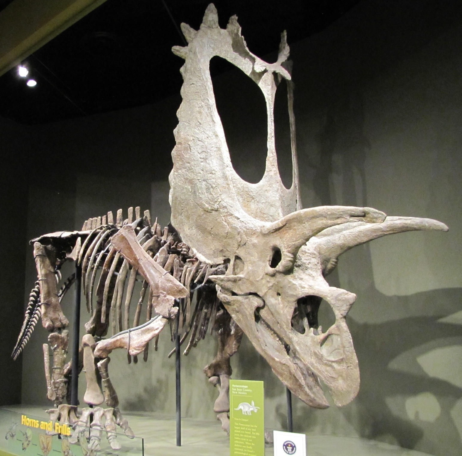 The Guinness world record holder for largest skull